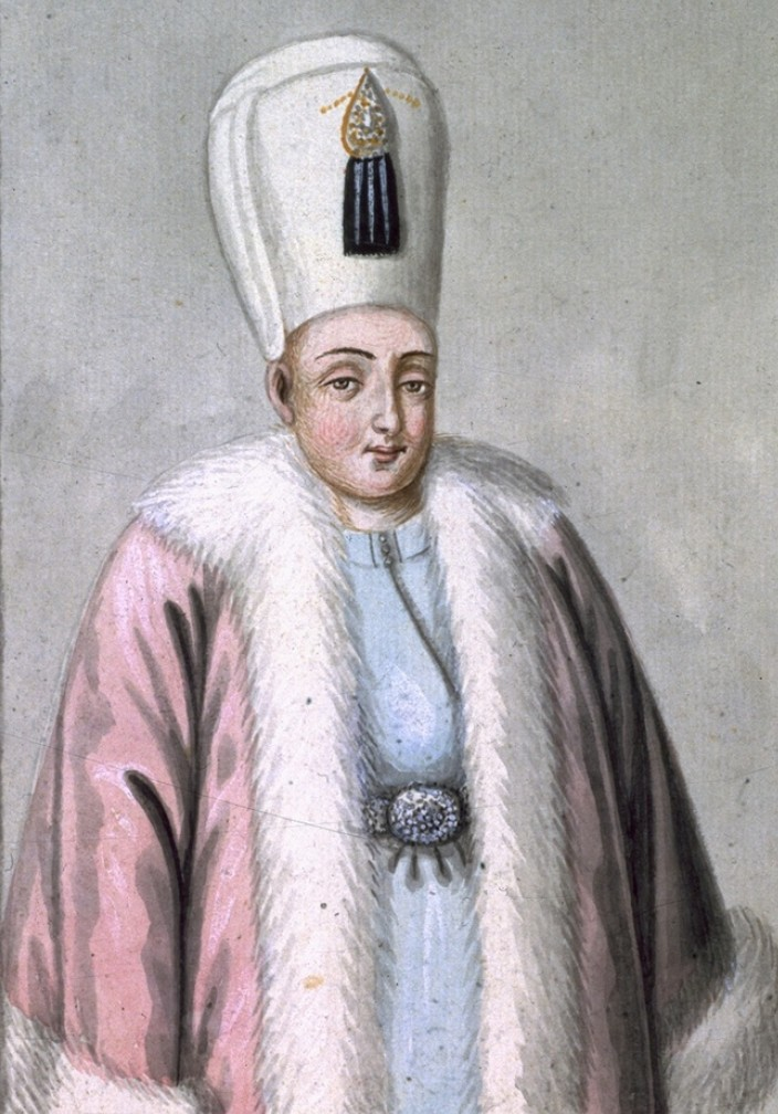 Portrait of Osman II, Sultan of the Ottoman Empire (1618-1622). The portrait has been printed using the Giclée process.